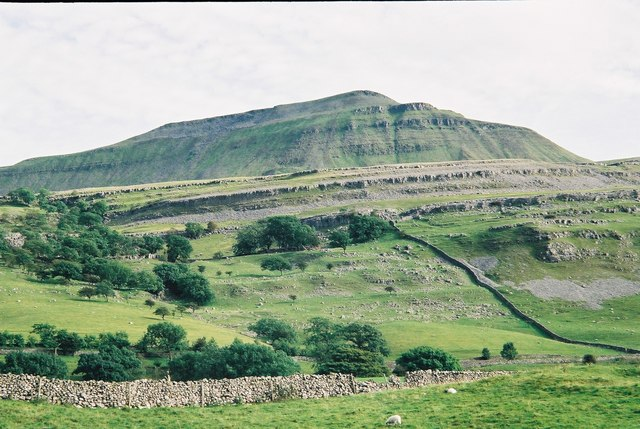 Ingleborough